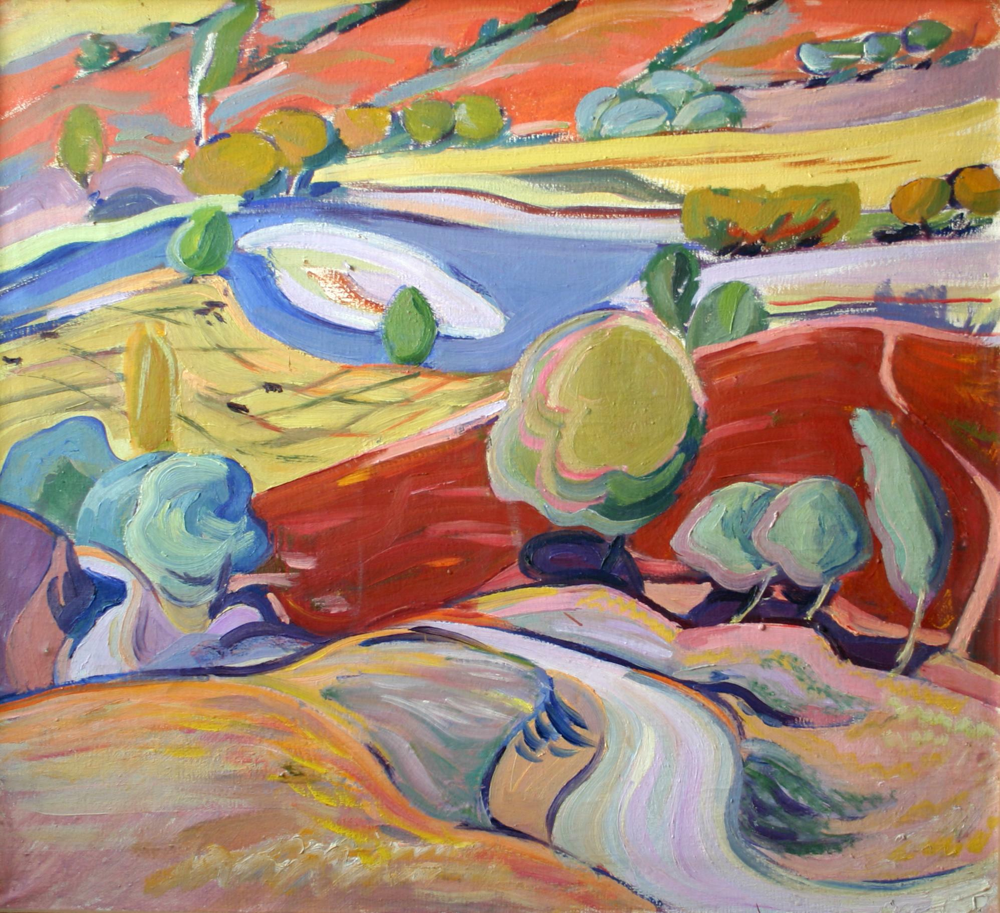 Irina Azizyan. Areni. The landscape with the rice field. 1965.